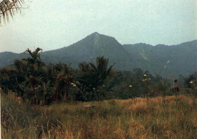 The compound Belirang-Beriti volcano, also spelled Belerang-Beriti, rises above Mubai village. The volcano rises above the Semalako Plain in SW Sumatra, forming a NW-SE-trending massif that contains a 1.2-km-wide crater breached to the NE. The age of its latest eruptions is not known, although fumaroles occur in the crater walls.